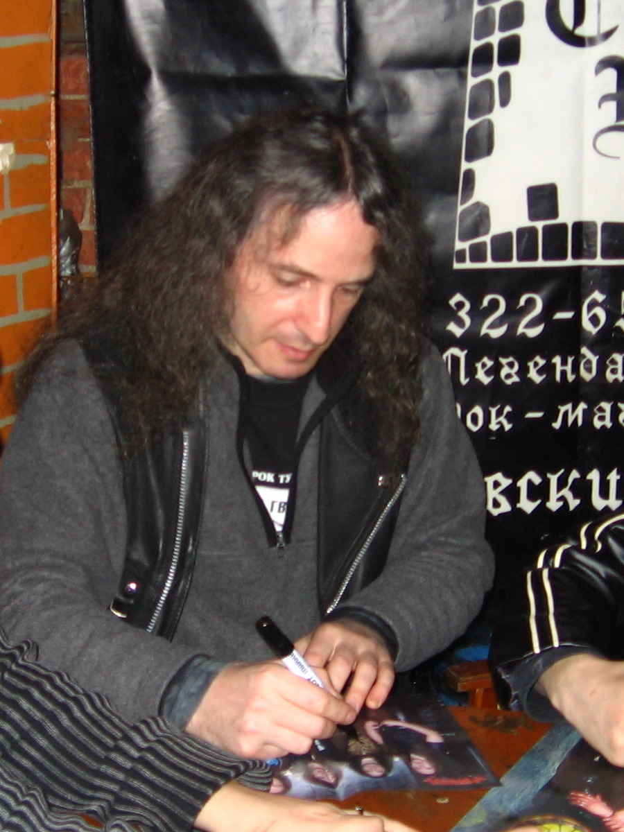 Autograph session of Alik Granovsky and other members of Master